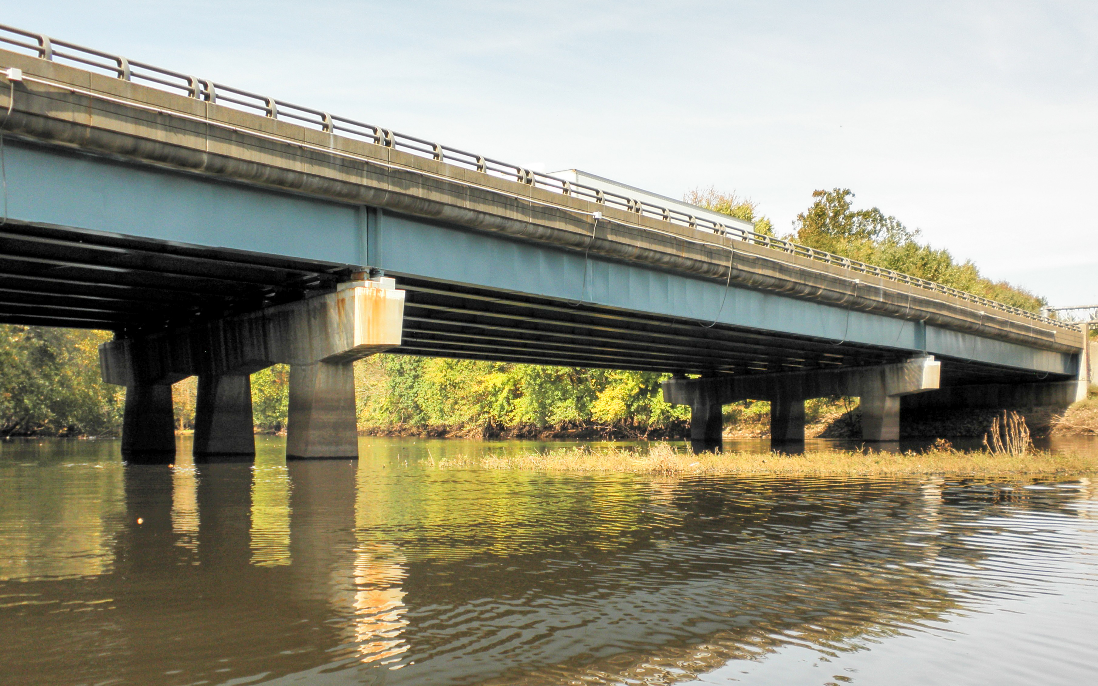 Christopher Columbus Highway (Interstate 80) Westbound Bridge over the Passaic River, Montville - Fairfield Township, New Jersey (looking southwest by kayak)